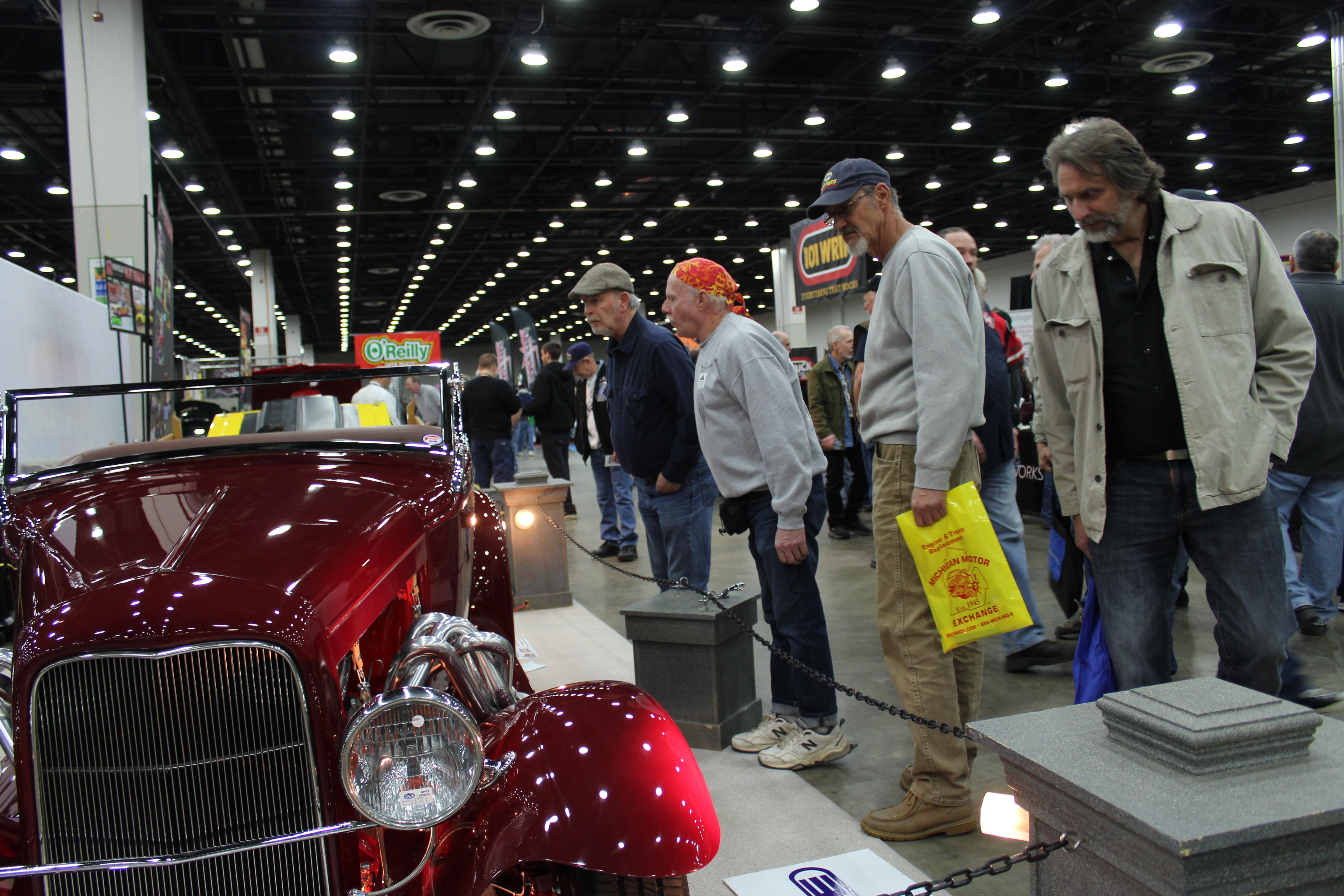 Car buffs look down at one of the over 1,000 cars on-display "America's Greatest Hot Rod Show".